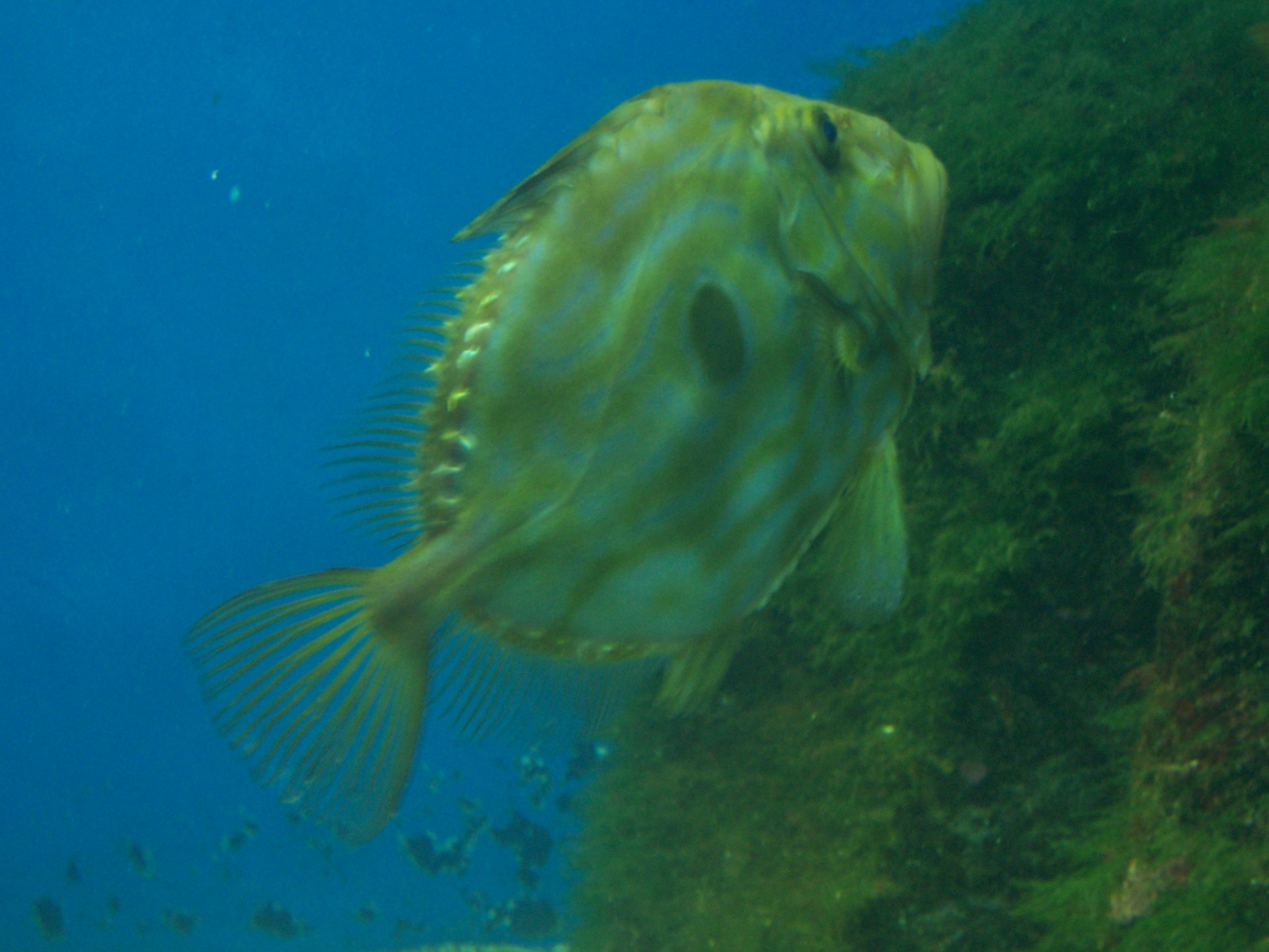 John Dory, photo taken in Aquarium Finierrae, A Coruña